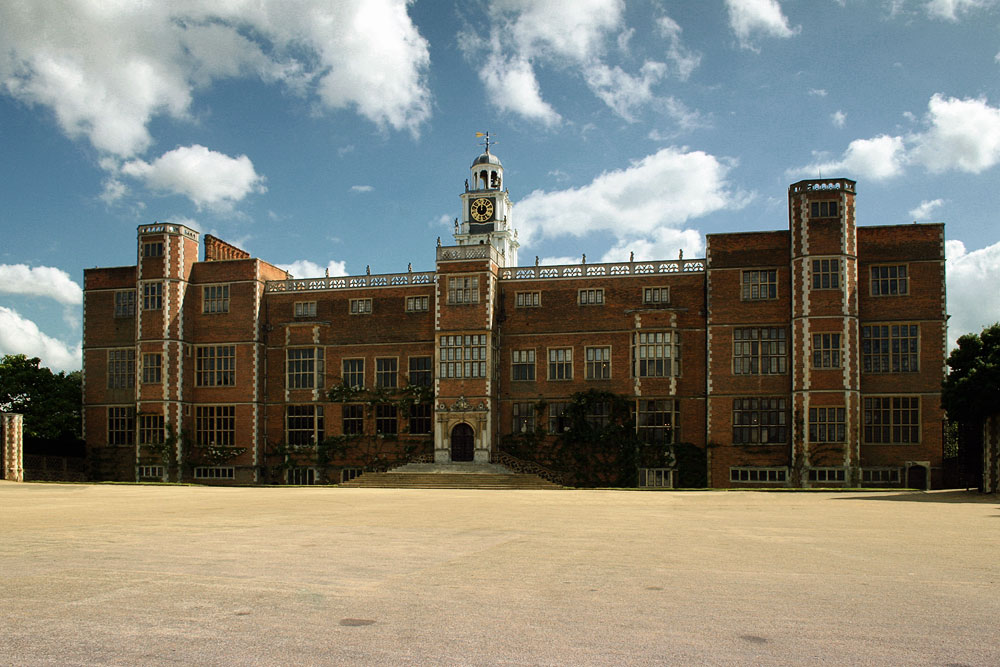 View of Hatfield House north entrance (public entrance)